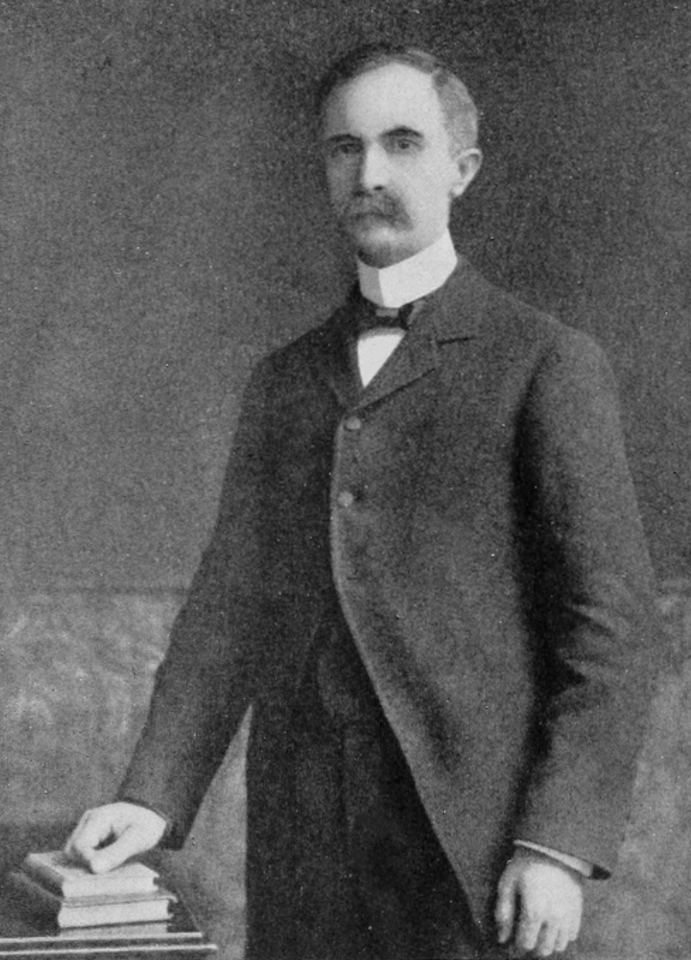 Portrait photograph of Robert Taylor Thorp